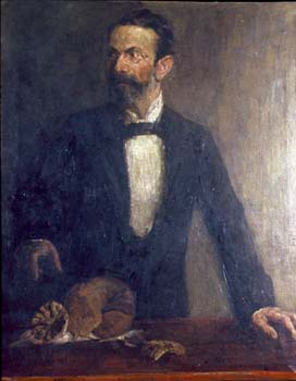 Former President of the Bavarian Academy of Science